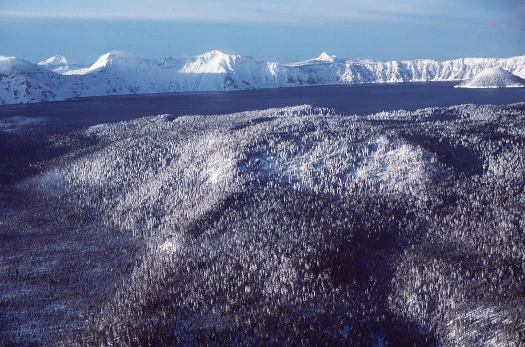 Image title: Crater lake crater lake national park Oregon Image from Public domain images website